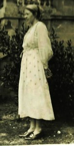 Photograph of Katherine Laird Cox standing, wearing a dress. Undated, likely pre 1914